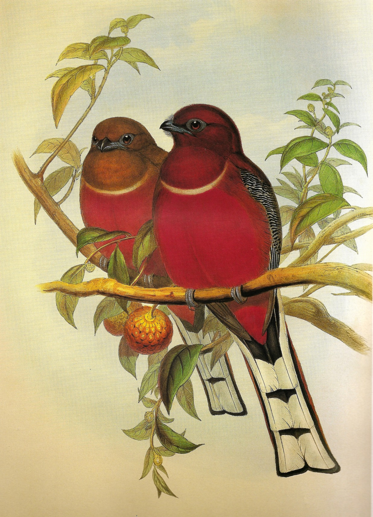 Red-headed Trogon Harpactes erythrocephalus (Gould)